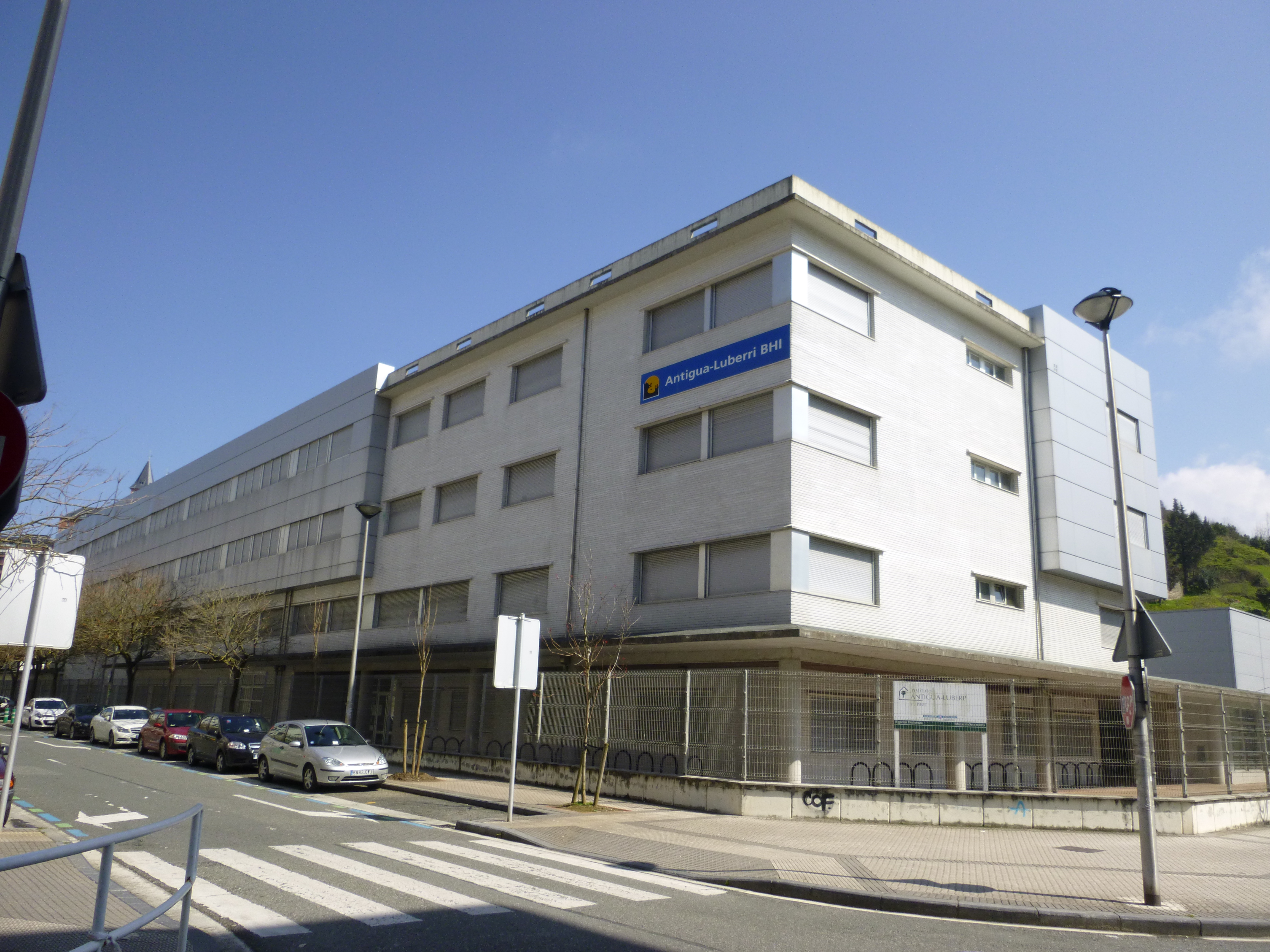 Antigua Luberri school.